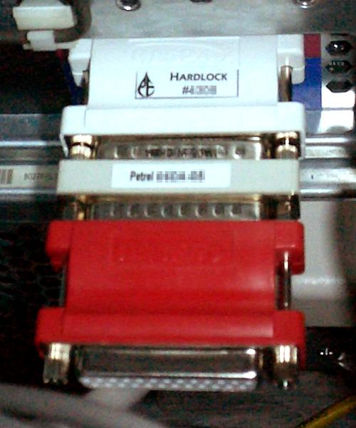 Chained parallel port dongles for software copy protection. The serial numbers on the dongles have been pixelated out. Photo taken with a Casio EX-S20, cropped and pixelated in GIMP.